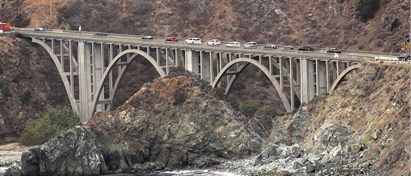 Cropped version of File:Big Creek Bridge, Big Sur - California State Route 1 - panoramio (3).jpg